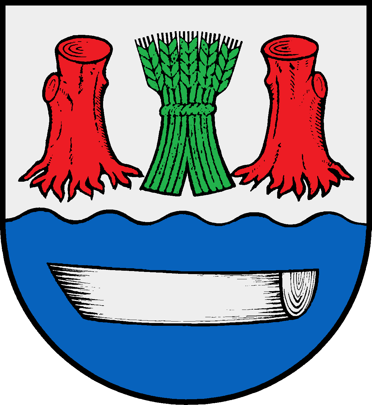 Coat of arms of the municipality Stocksee in Schleswig-Holstein, Germany.